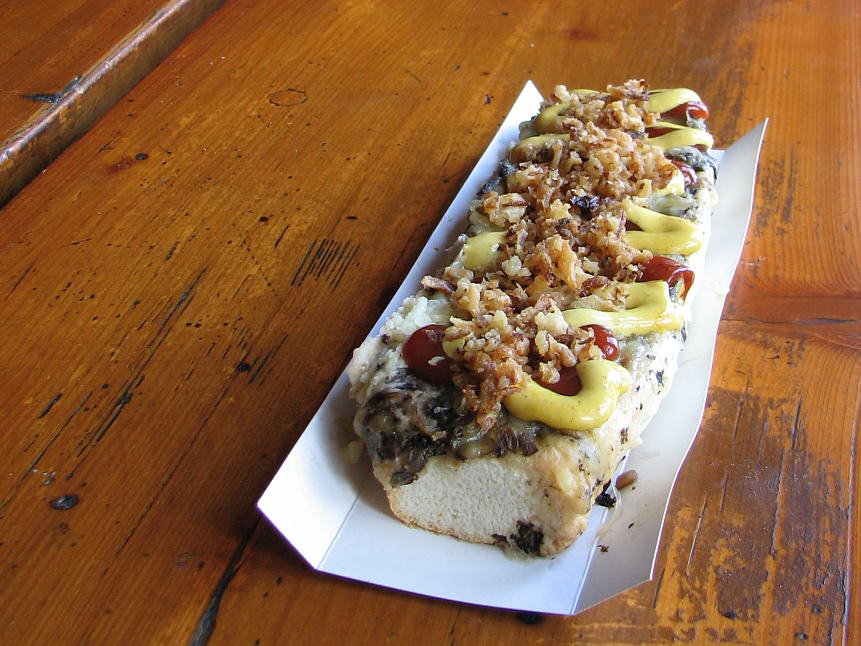 Polish "zapiekanka"